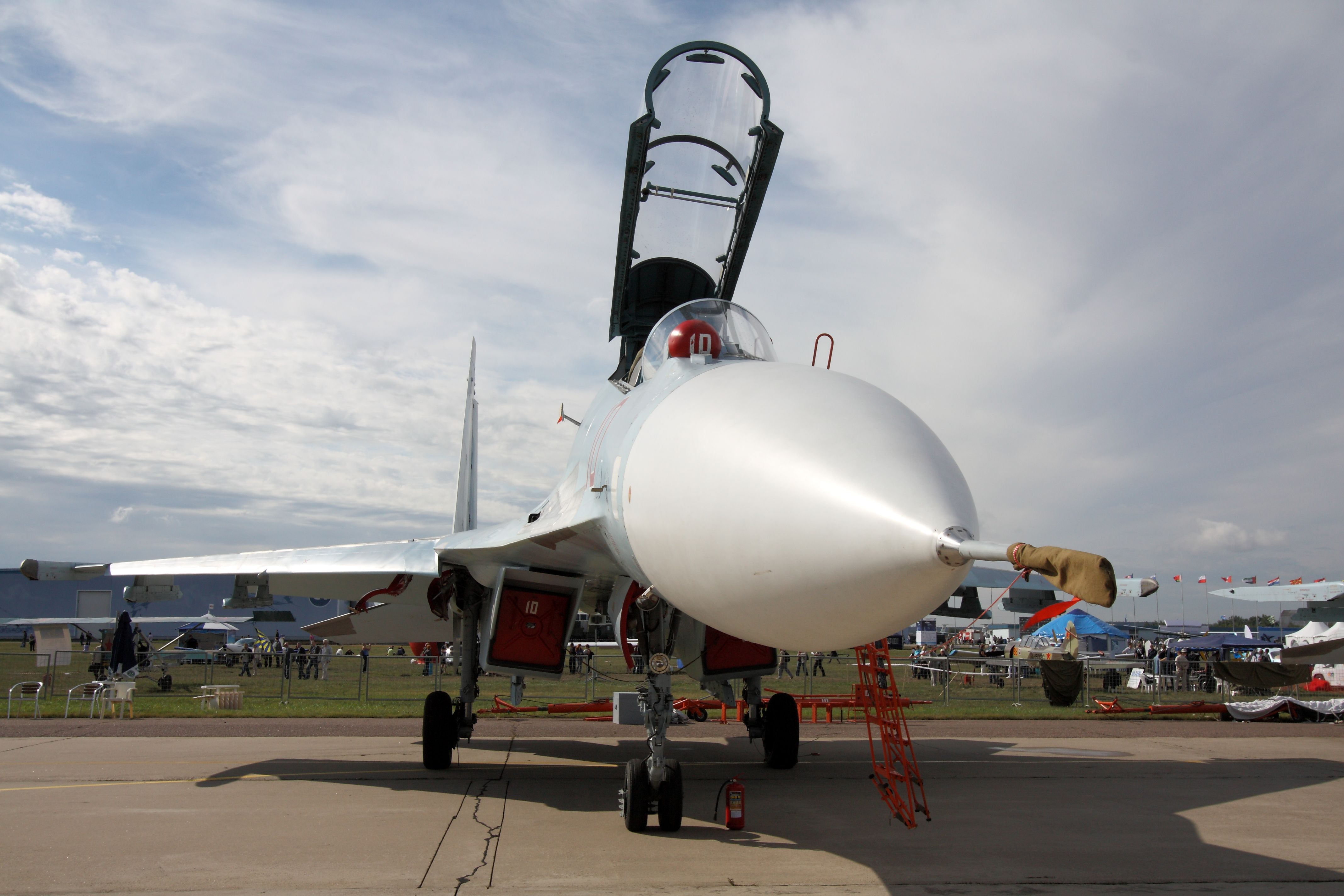 Fighter Su-30M2 Flanker-C (The international aerospace salon MAKS-2011)